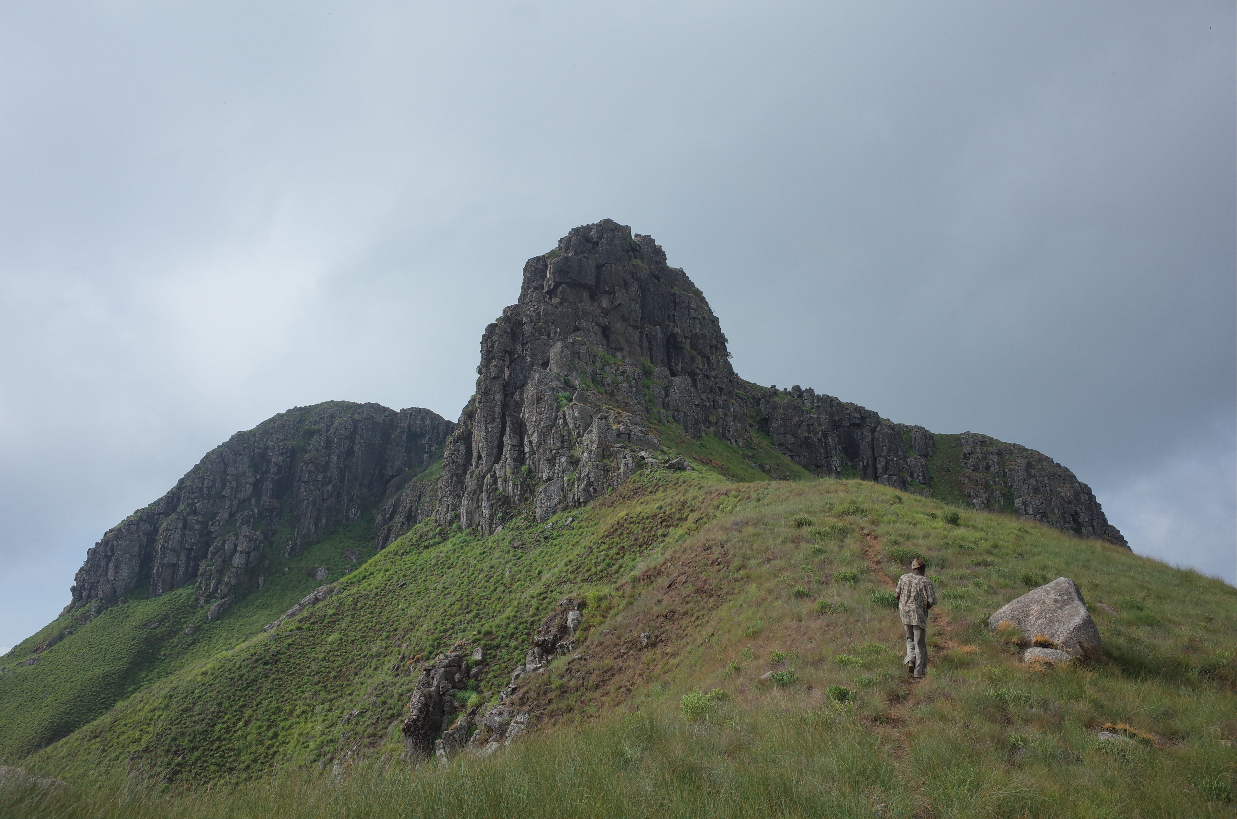 Mountain Bintunami in beginning of a rainy season